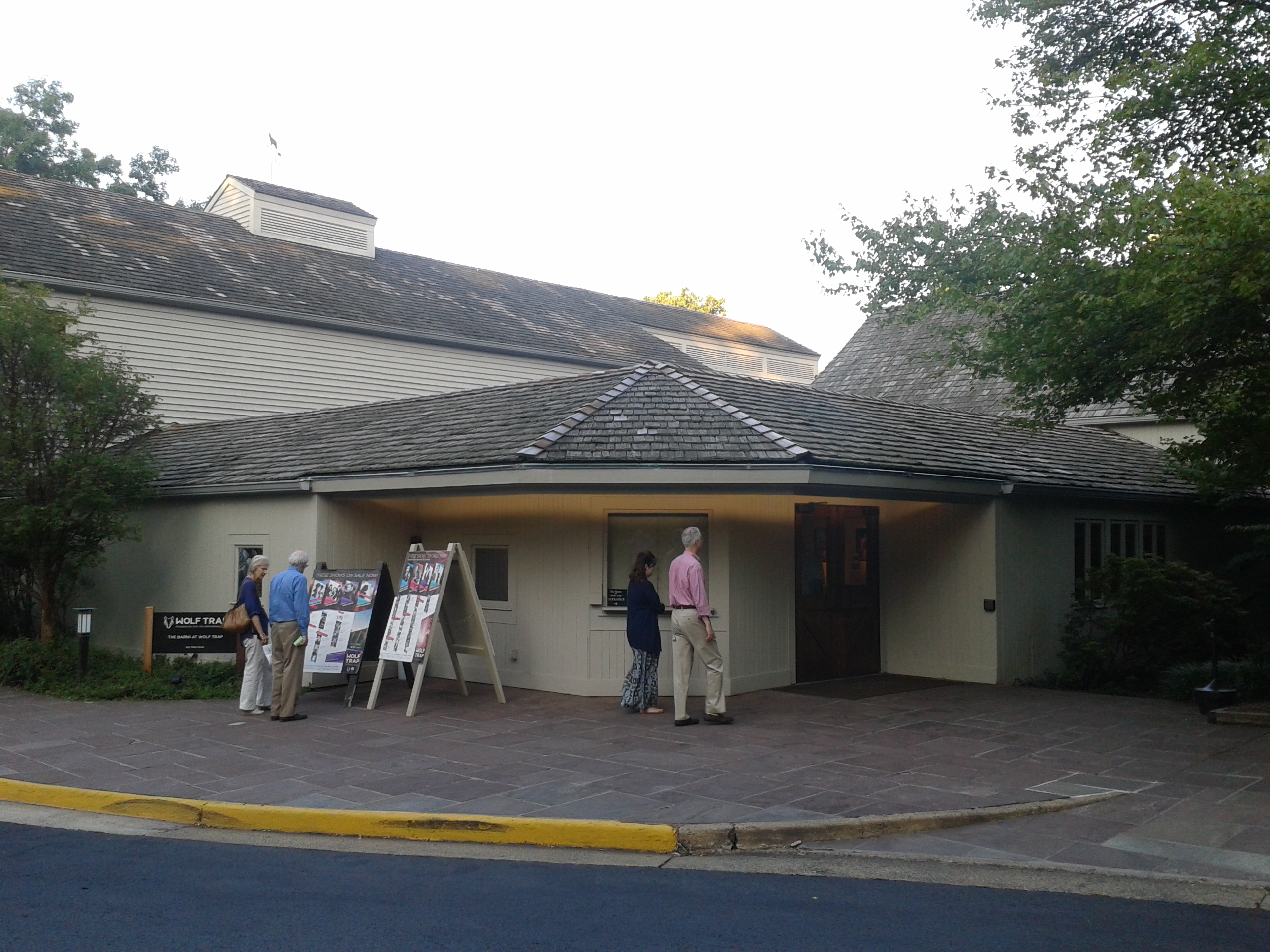 Scenes from The Barns at Wolf Trap